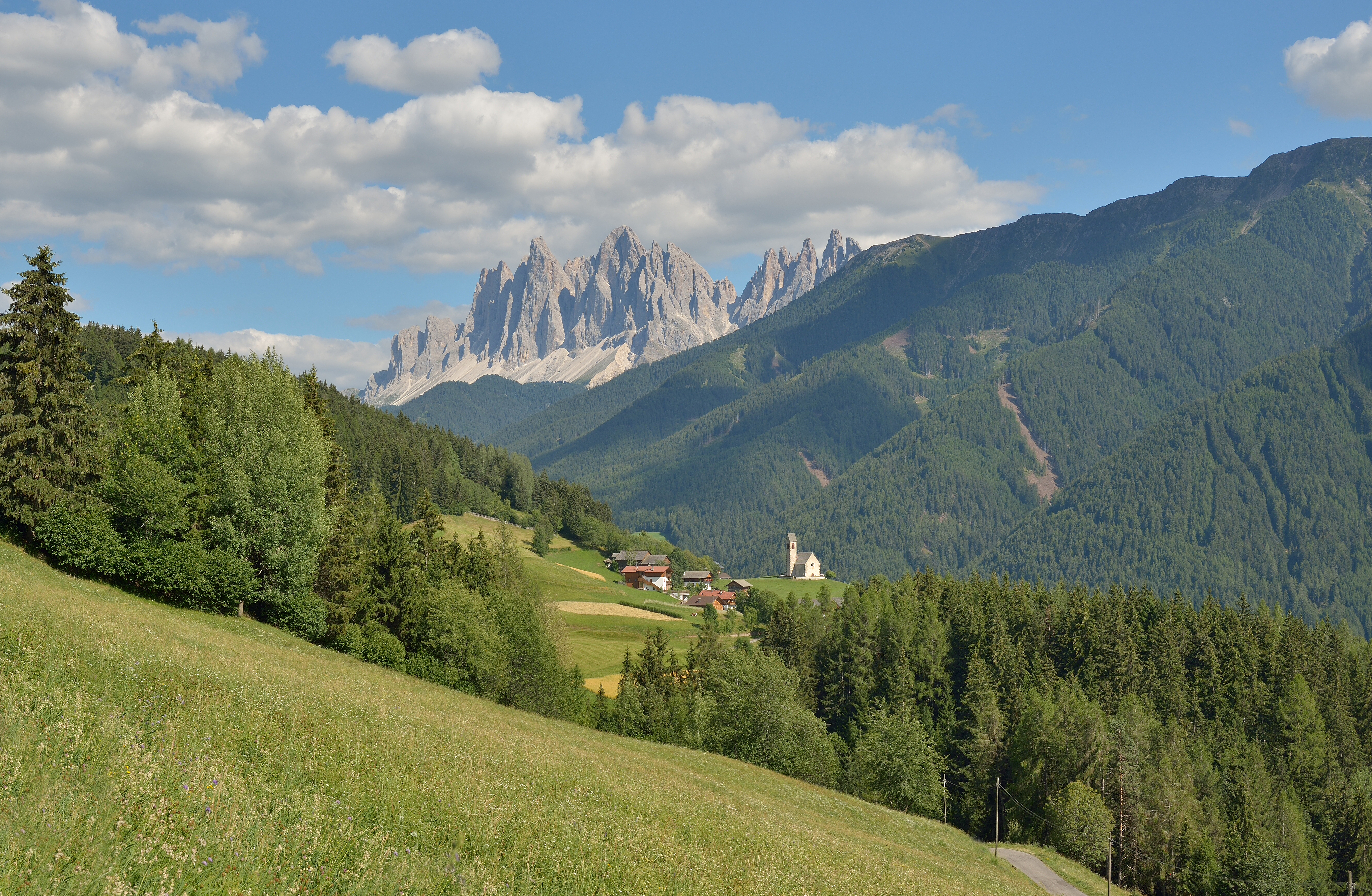 "St. Jakob am Joch" church in Villnöß